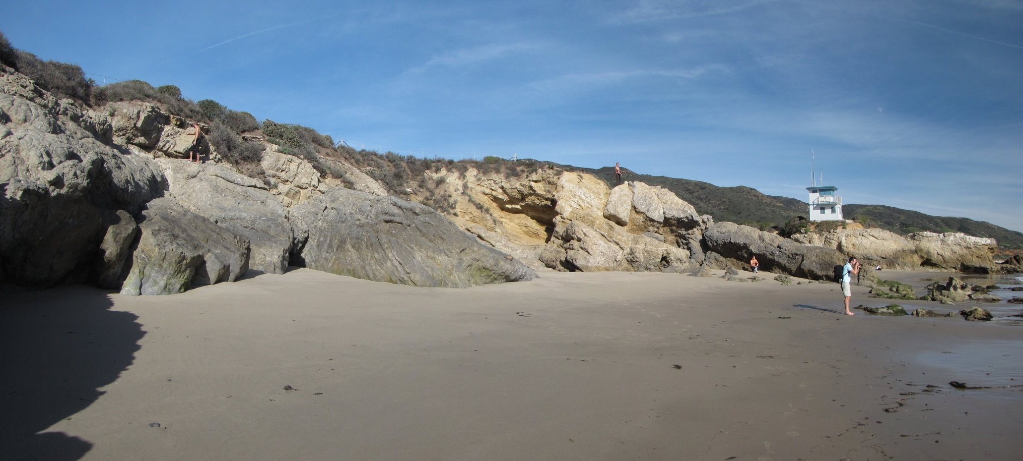 Beach at Leo Carrillo State Park — within the Santa Monica Mountains National Recreation Area, Southern California.